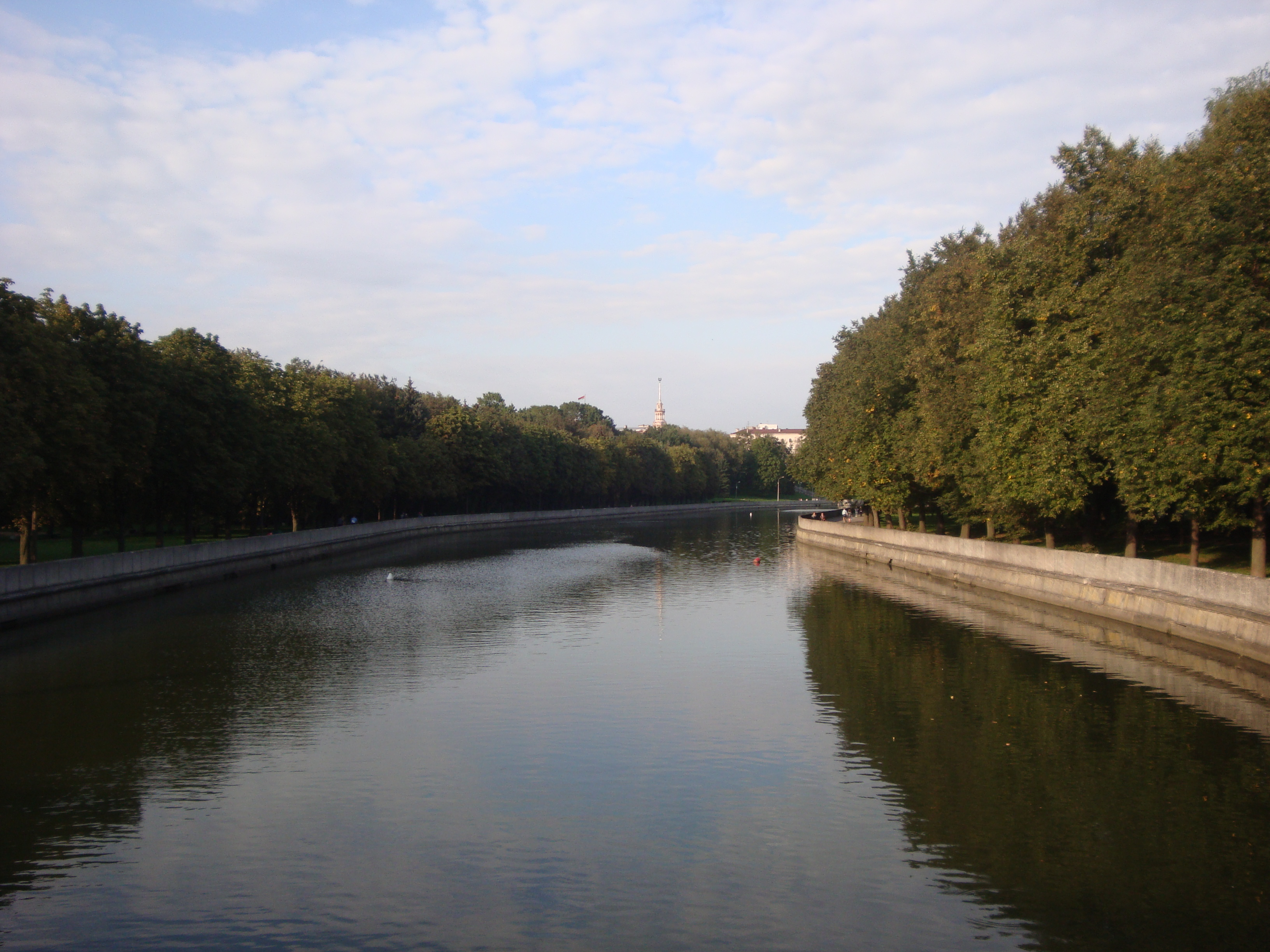 Svisloch river in the center of Minsk city near Janka Kupala Park, 2014 AD